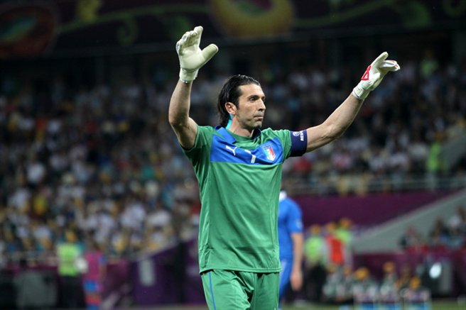 Gianluigi Buffon at Euro 2012 match against England